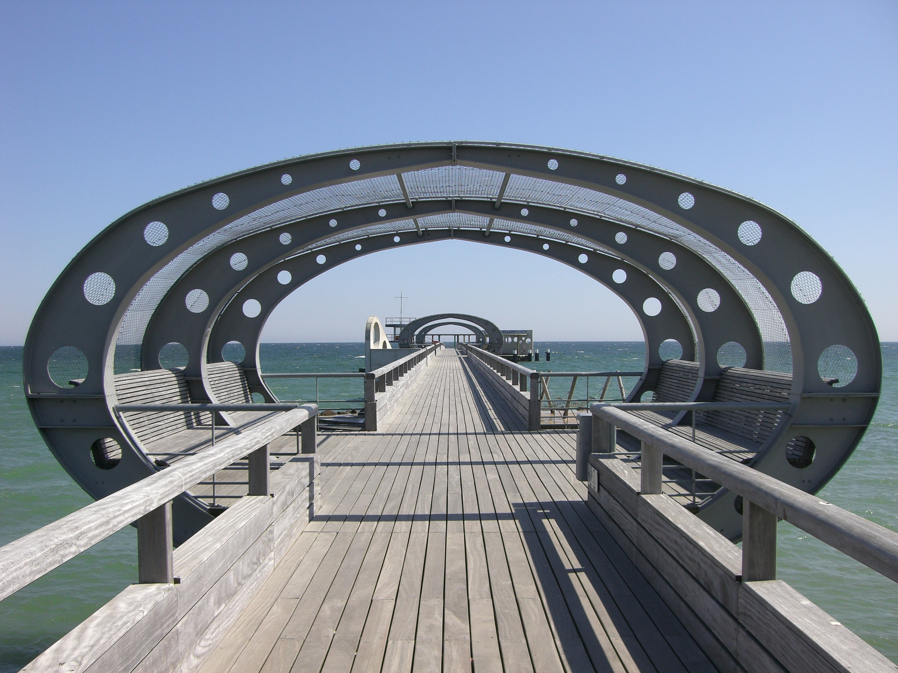 That is the pier of Kellenhusen (Baltic Sea)